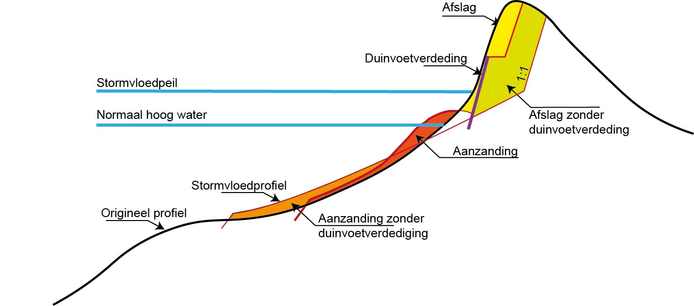 Effect of a hard protection at the foot of the dune on the erosion during a storm surge